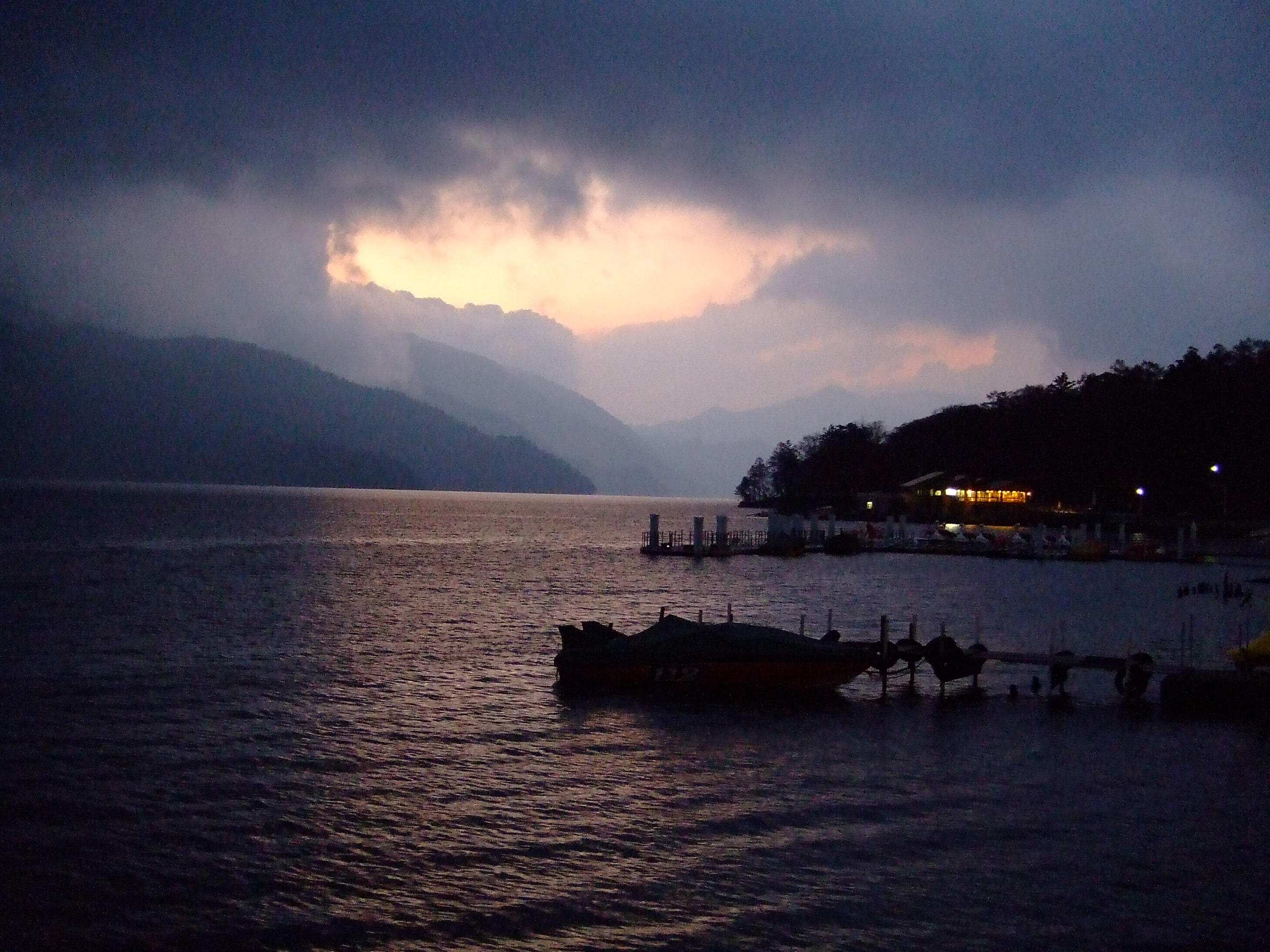 This is Lake Chuzenji, in Nikko National Park, Japan, at dusk. I took this photo with a digital camera on 4th November 2006.